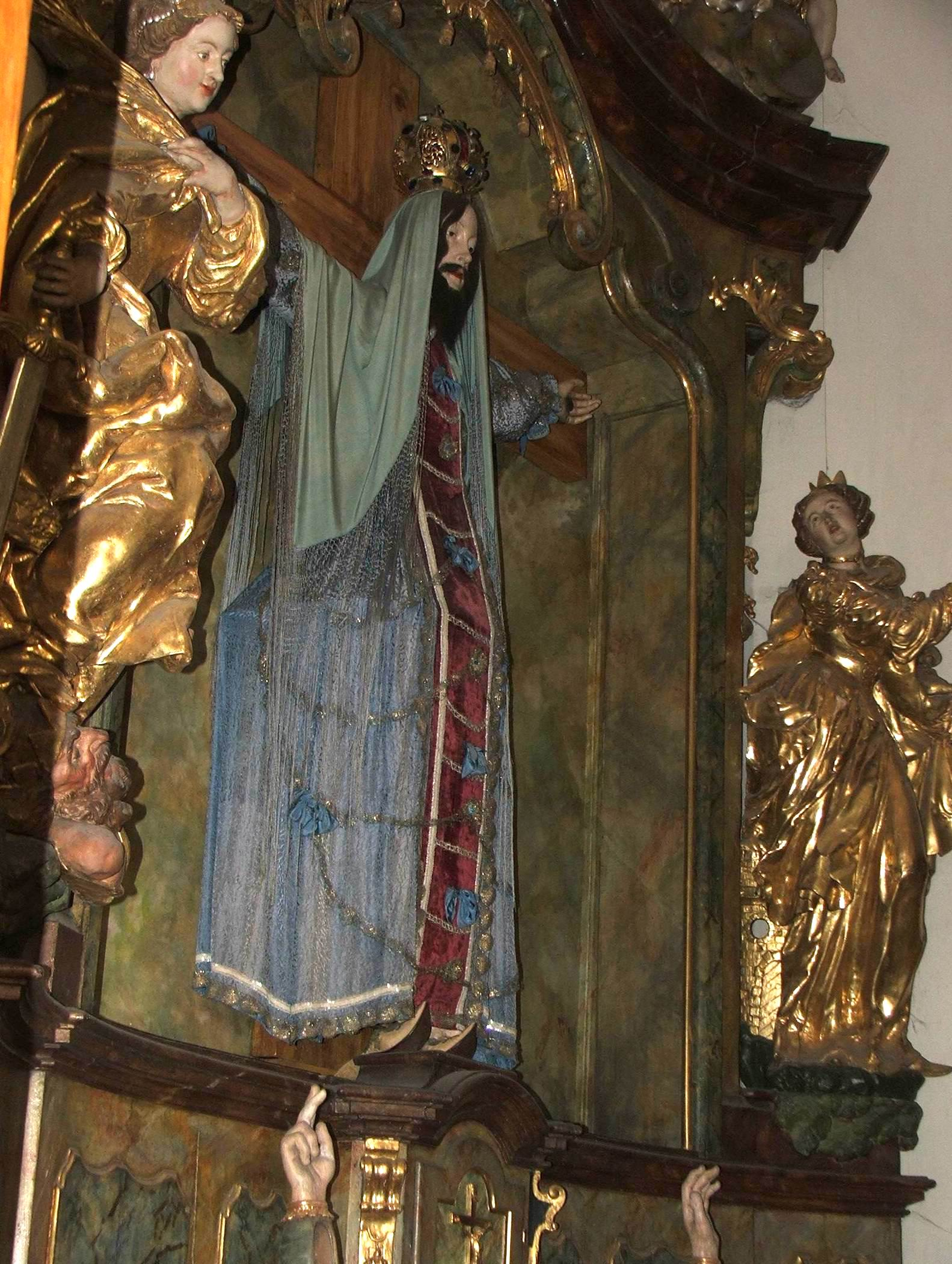 Saint Wilgefortis in Loreta - Prague, Czech Republic